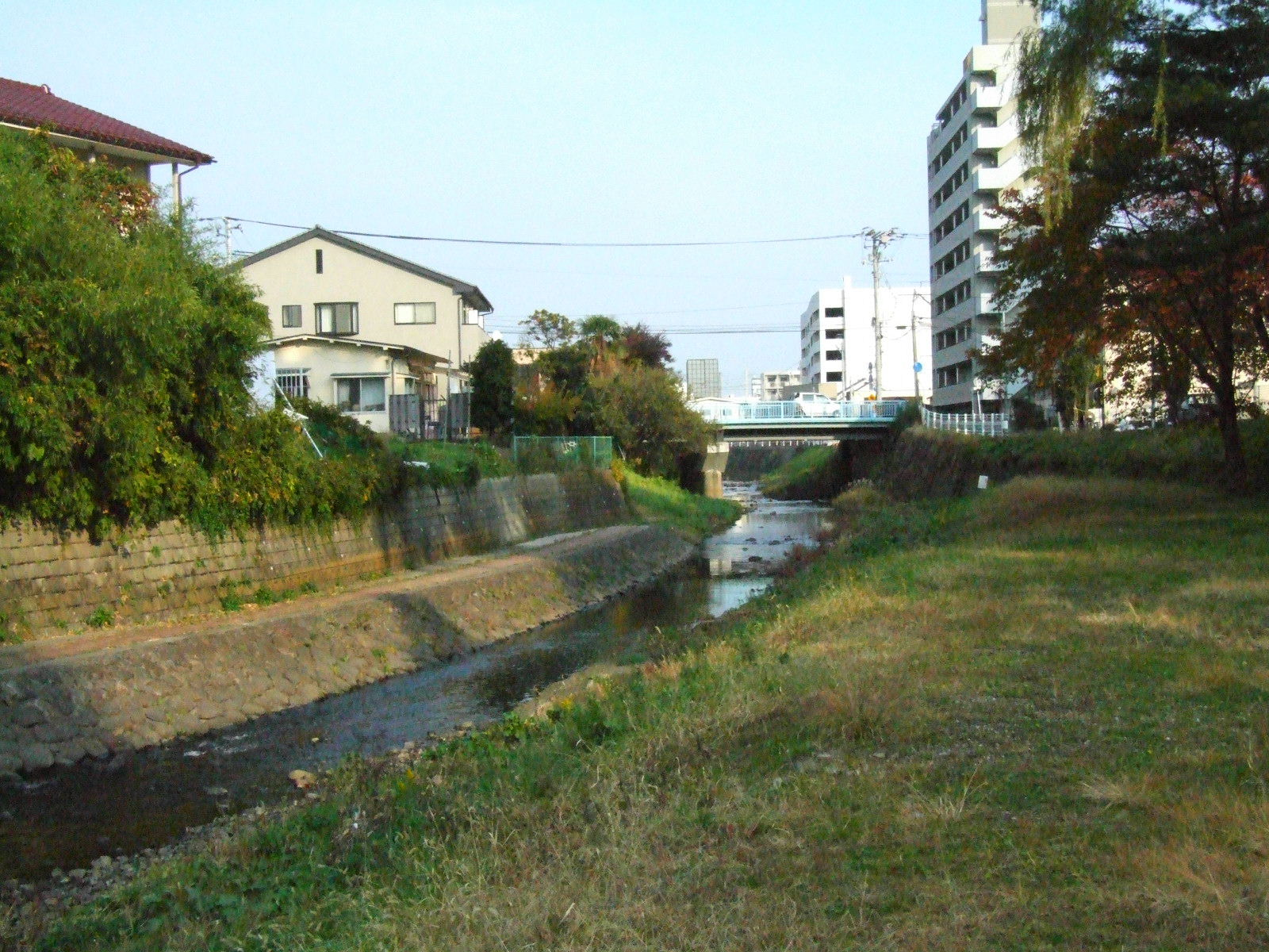 Umeda River (Umeda Gawa) - Nigatake, Miyagino ward, Sendai, Miyagi prefecture, Japan. Eastward from the Umeda River Garden Kids Plaza. Nigatake Bridge is seen.